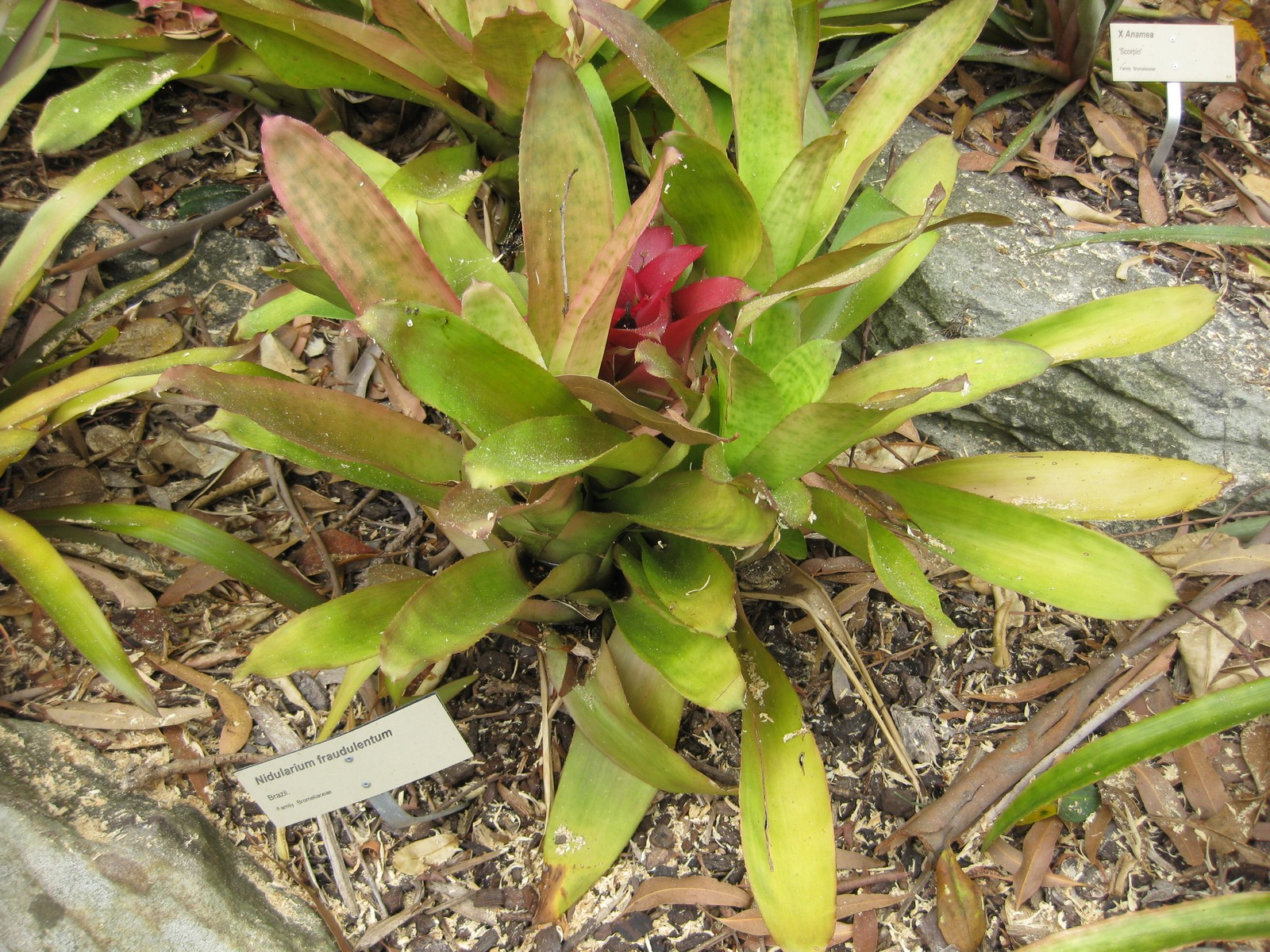 Photographed at the Royal Botanic Gardens Sydney (Australia) in January